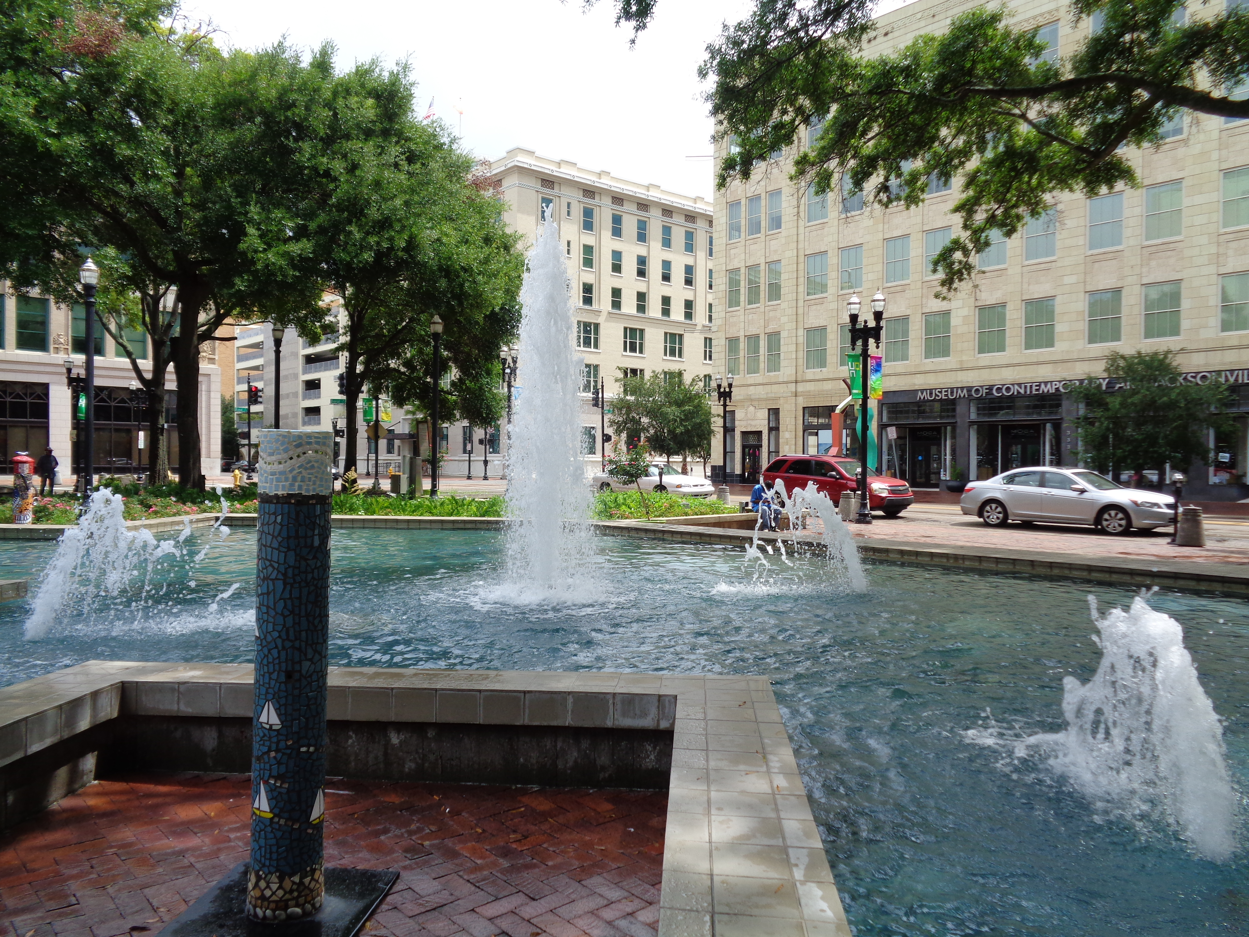 Hemming Park, Jacksonville, Florida